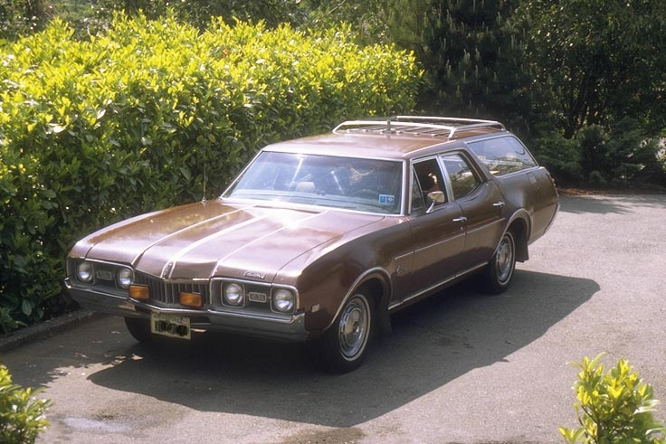 1968 Oldsmobile F-85 Cutlass Station Wagon